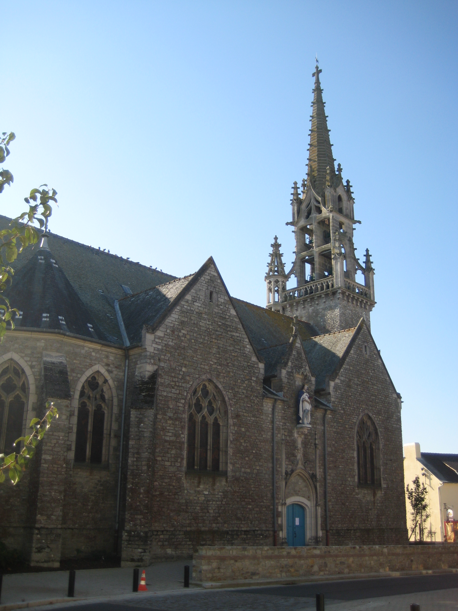 church of Acigné